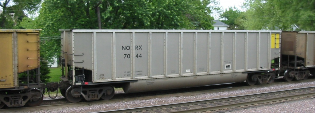 A "bathtub" gondola seen in a unit coal train on May 29, 2005, at Rochelle Railroad Park, Rochelle, Illinois. Photo by Sean Lamb (User:Slambo)